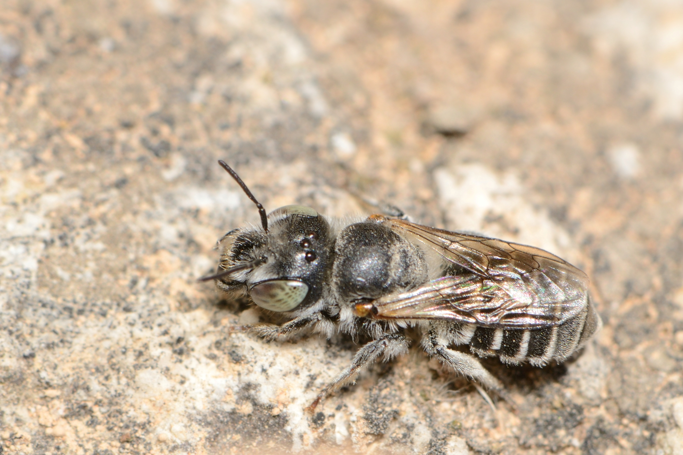 Hoplitis homalocera, Mount Carmel, Israel, May 3, 2012.